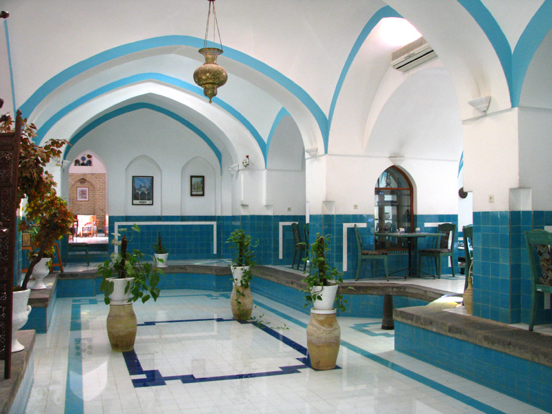 Khan Bathroom was a big Public bathing in Yazd. Today it is a museum.